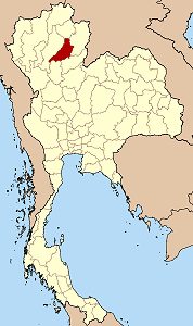 Map of Thailand highlighting Phrae province